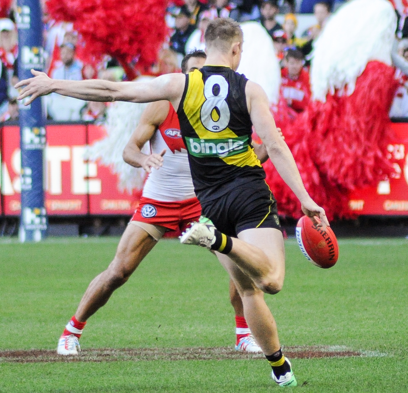 Jack Riewoldt kicking during the AFL round thirteen match between Richmond and Sydney on 17 June 2017 at the Melbourne Cricket Ground in Melbourne, Victoria.